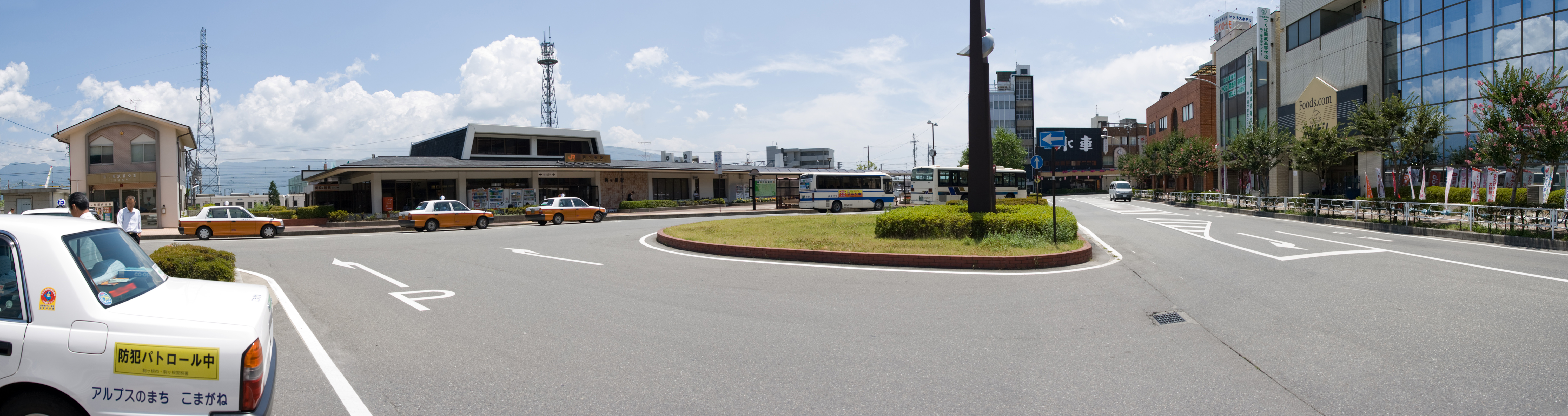 Ida Line Komagane Station